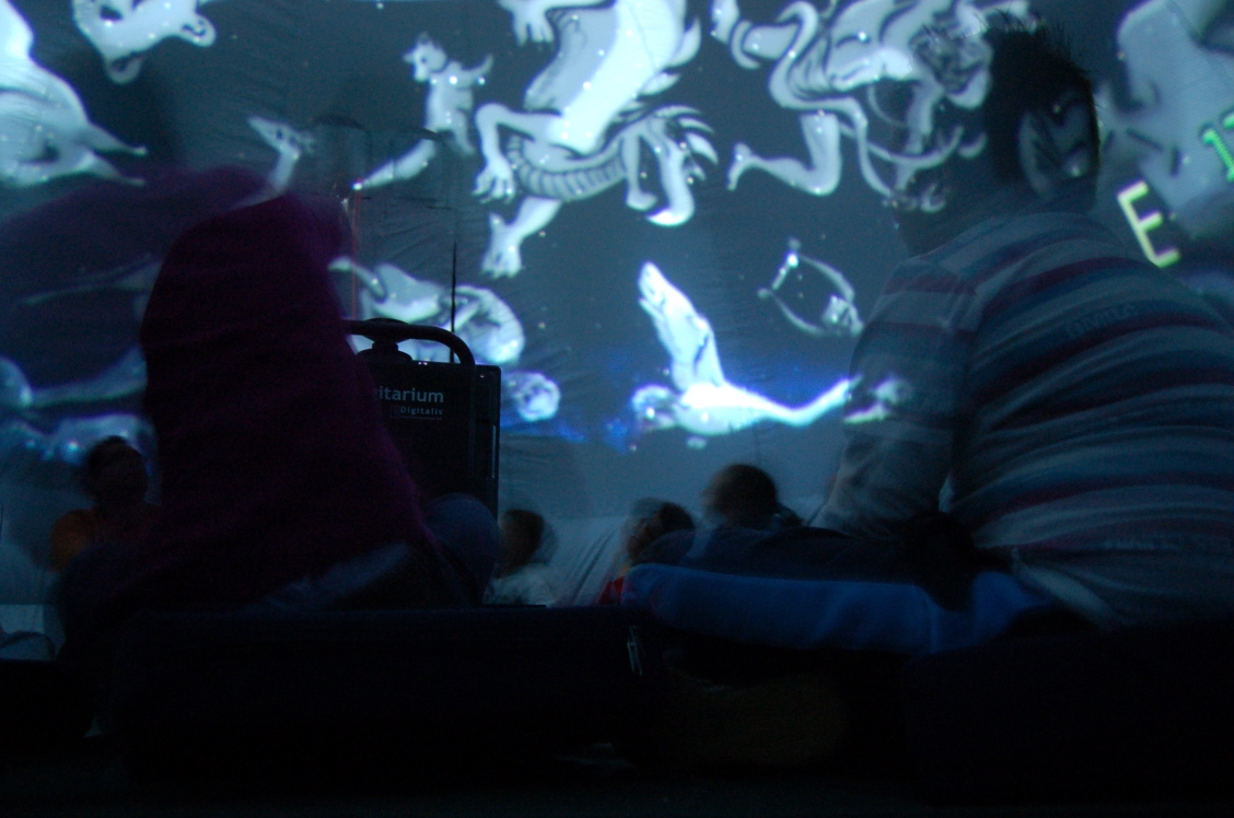 A session of the "Stellarium", presented in the mobile digital planetarium, on the grounds of the school, municipality of Vila do Corvo (Azores), Portugal